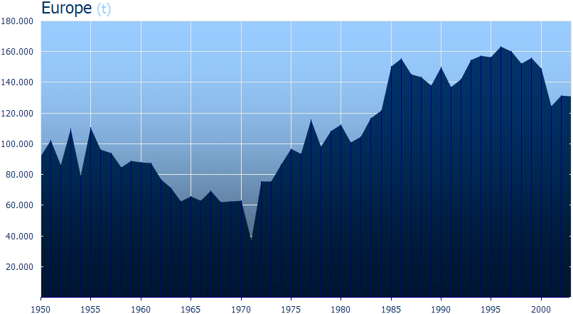 Oyster production in Europe